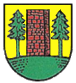 Coat of arms of Bösingen in Pfalzgrafenweiler